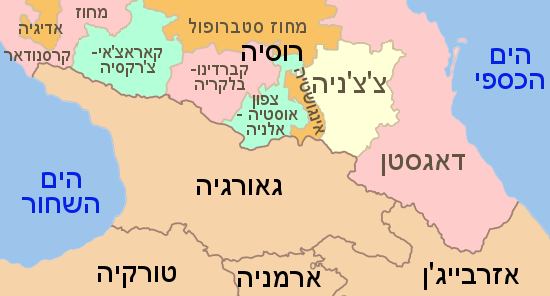 Chechnya_and_Caucasus